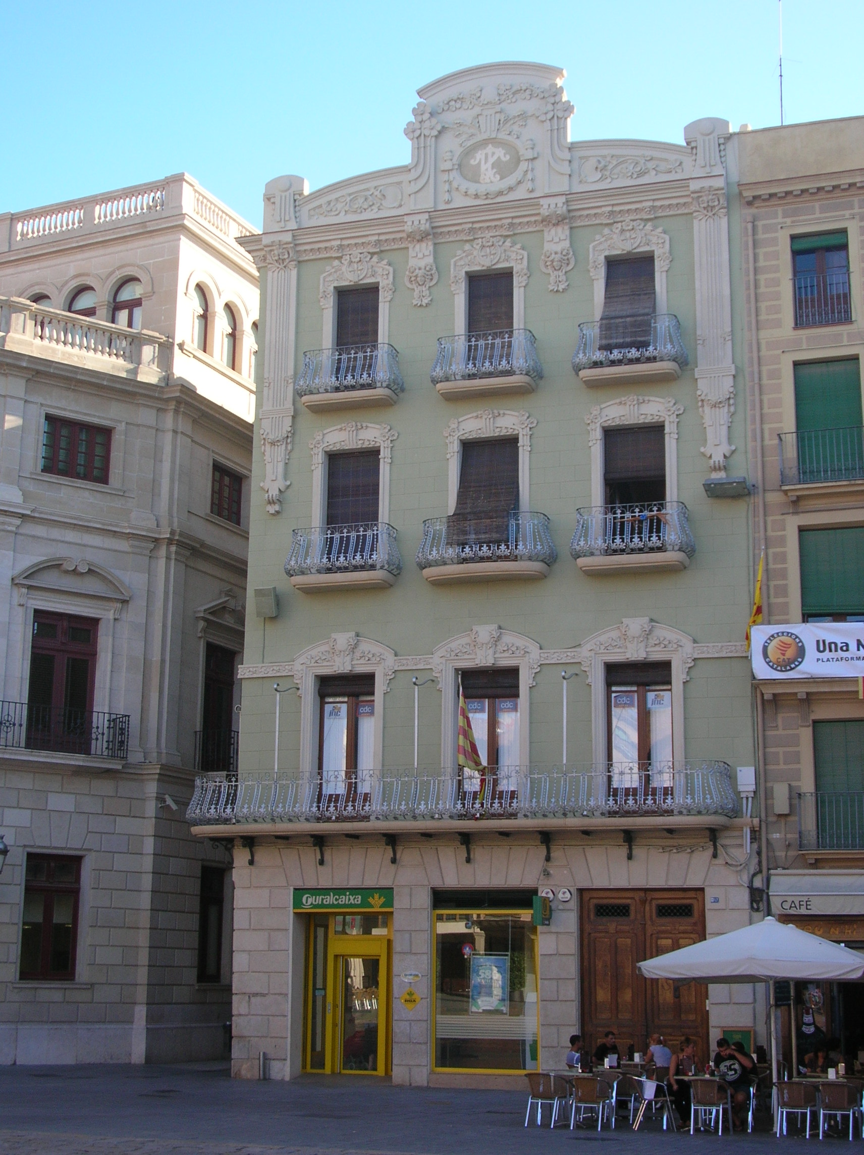 Casa Piñol, building of Catalan Modernisme, designed by Pere Caselles. Located in Reus, Catalonia